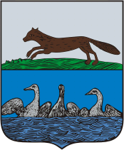 Sterlitamak (Bashkortostan), coat of arms (1782)